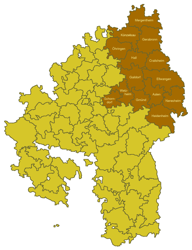 Map of the Jagstkreis (one of districts of Württemberg) with its administrative subdivisions (Oberämter) as of 1835.